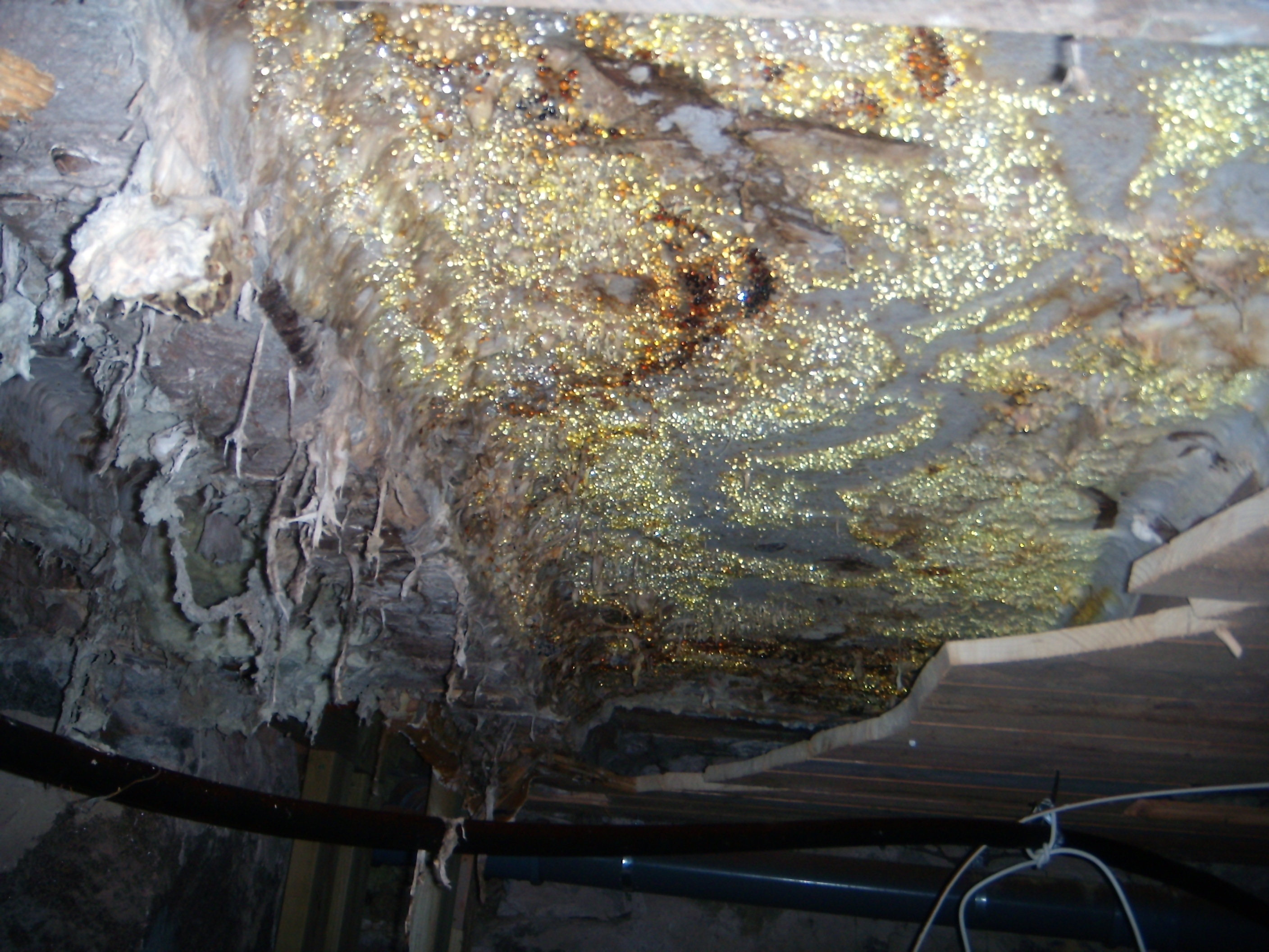 Serpula lacrymans.